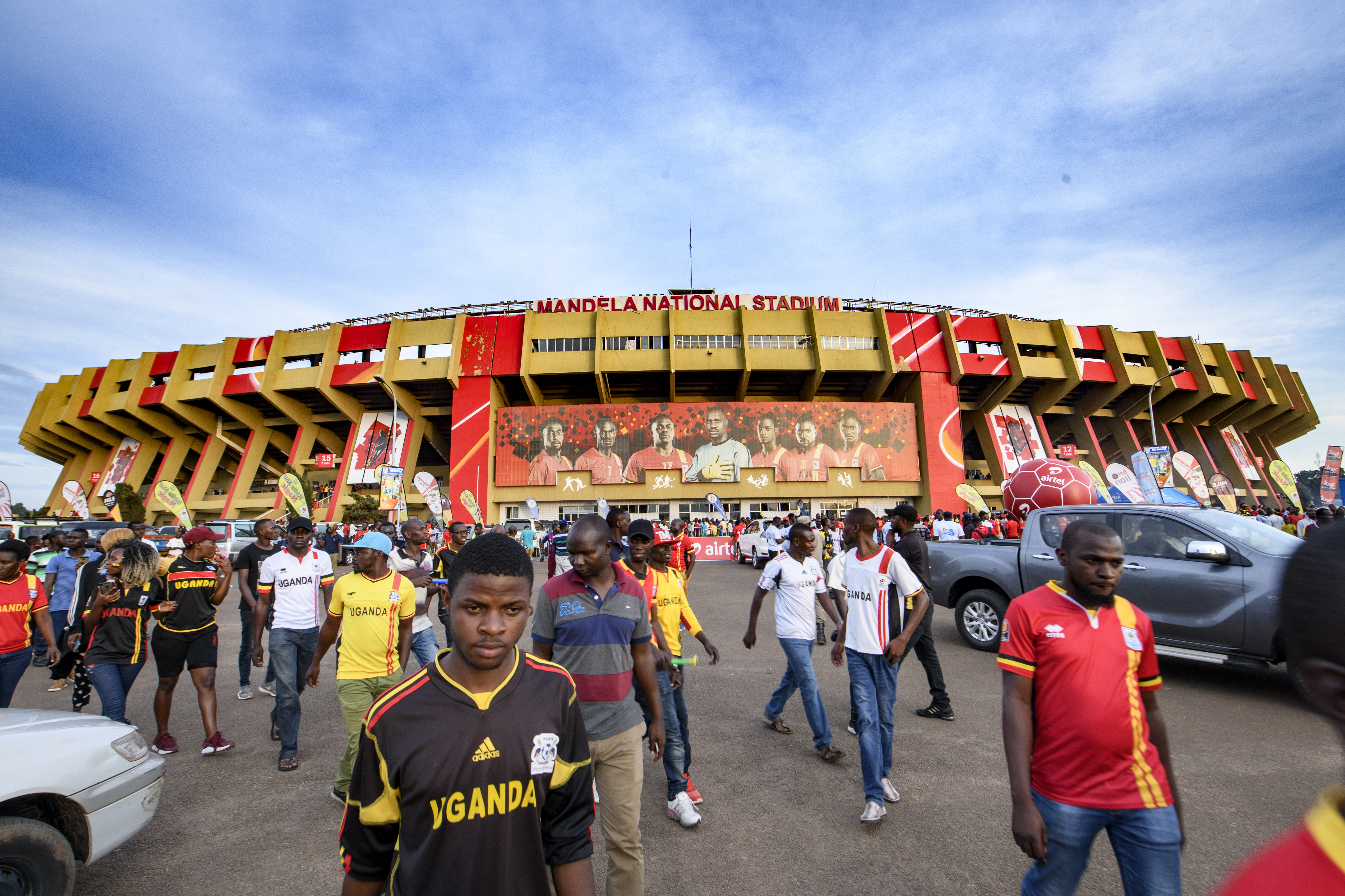 Fans leave Uganda's Mandela National Stadium. Uganda Beat Cape Verde 1:0 to qualified for the 2019 AFCON tournament. This is the 3rd time Uganda goes to AFCON